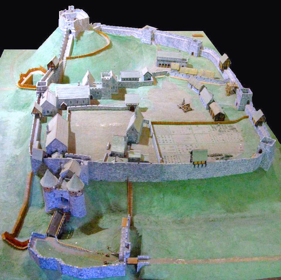 Carisbrooke Castle, 14th century - Model Camera: Canon PowerShot A720 IS License on Flickr (2011-02-18): CC-BY-2.0 Flickr tags: IOW, Isle of Wight, Carisbrooke